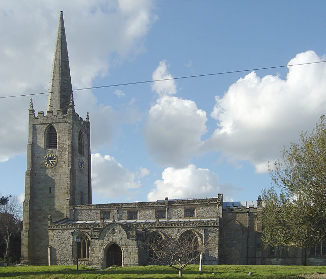 Parish church of St Mary the Virgin, Bunny, Nottinghamshire, seen from the south